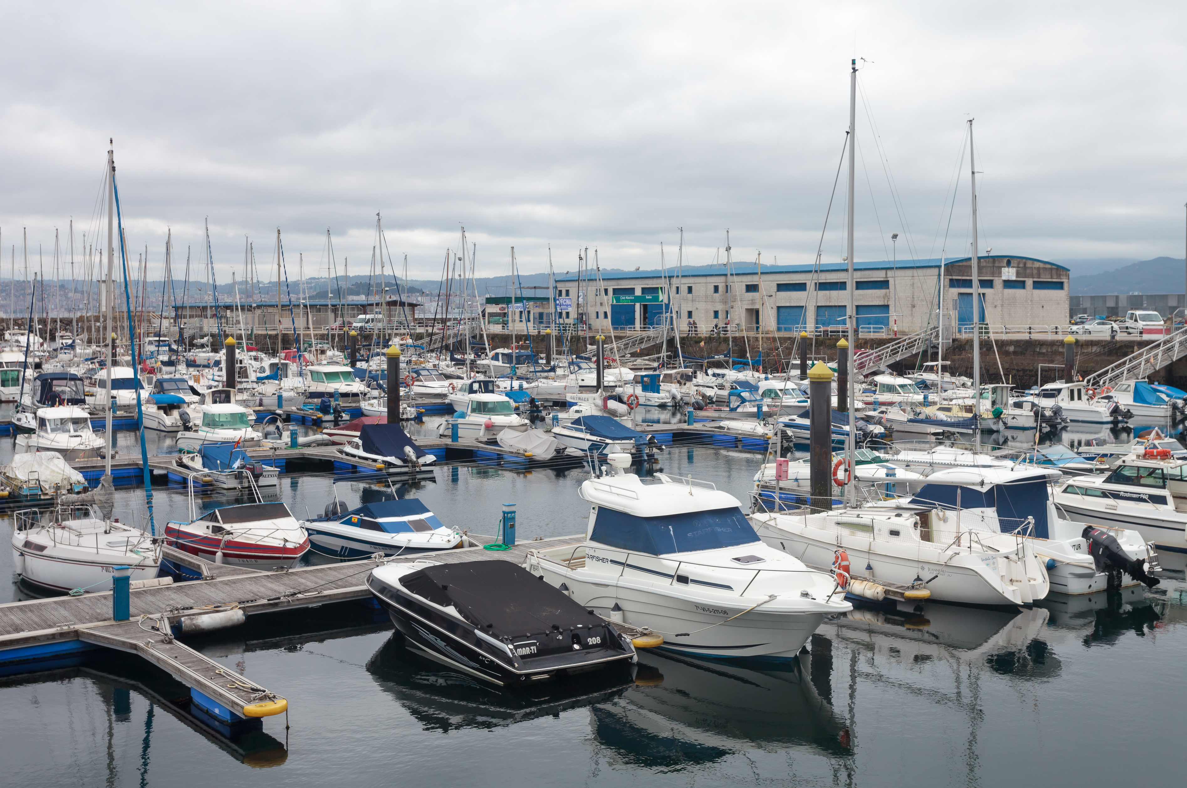 Port of Cangas, Galicia (Spain)